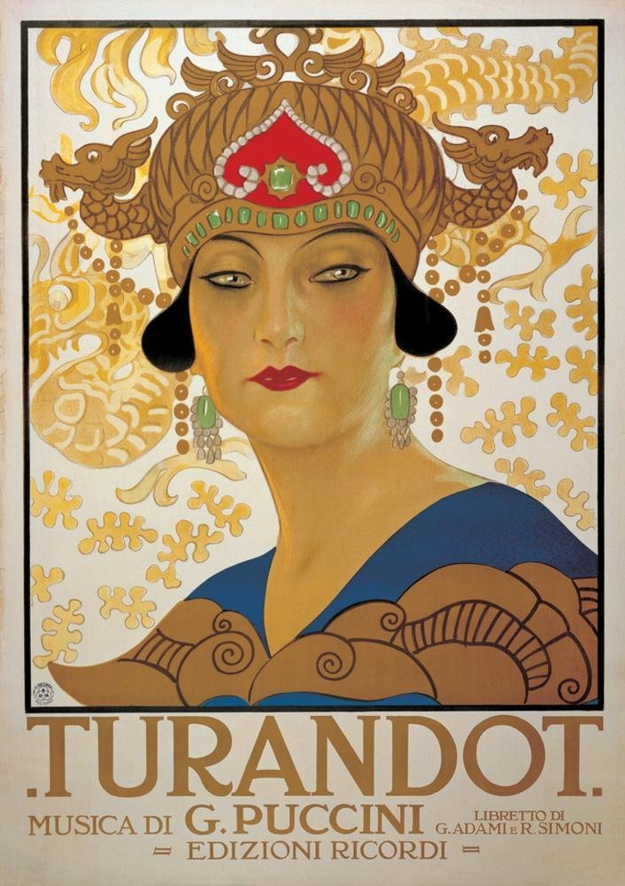 Promotional poster for Giacomo Puccini's opera "Turandot", on 25 April 1926. See here for references.